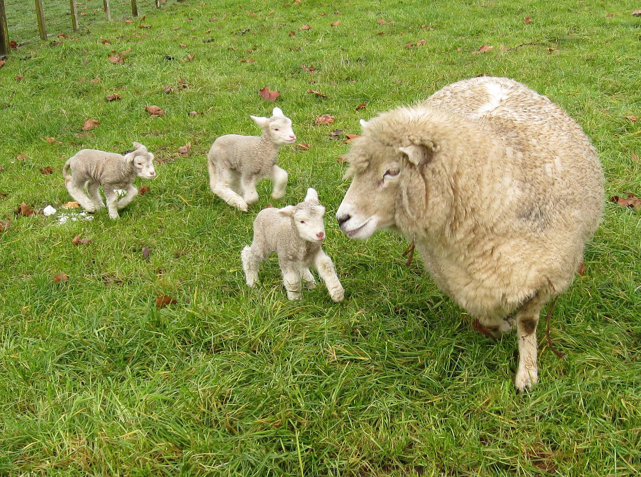 Romney sheep, ewe with triplet lambs in New Zealand. – "Although we have a sheep farm, this ewe is a pet. She was NOT impressed at having three babies, and for a while we fed that last small one as it just didn't get a look in at feeding time. Sheep only have two teats, so the big and strong win over the small and weak, I can report though that the small lamb is well grown and no sign of deprivation."